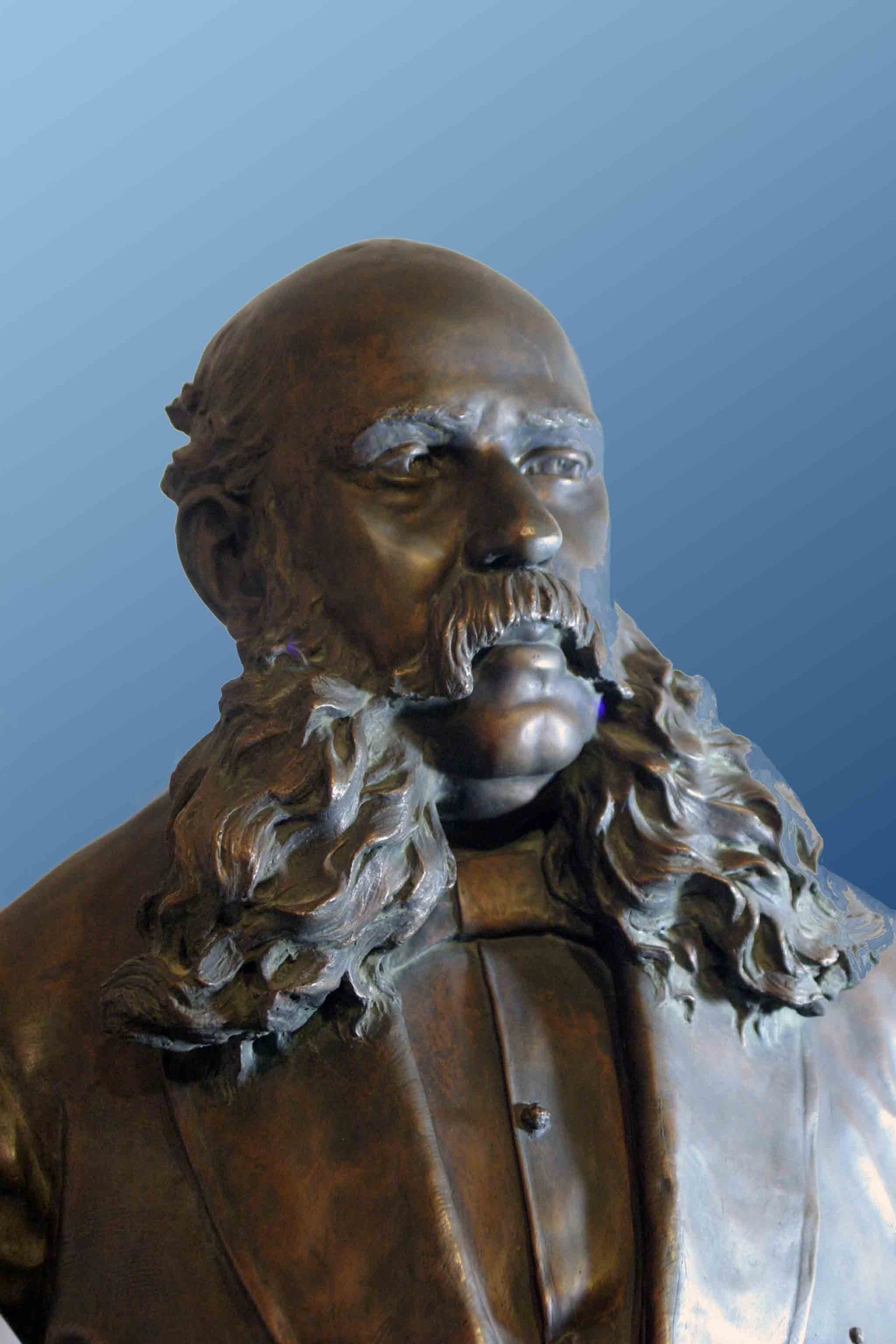 Rius i Taulet by Alentorn